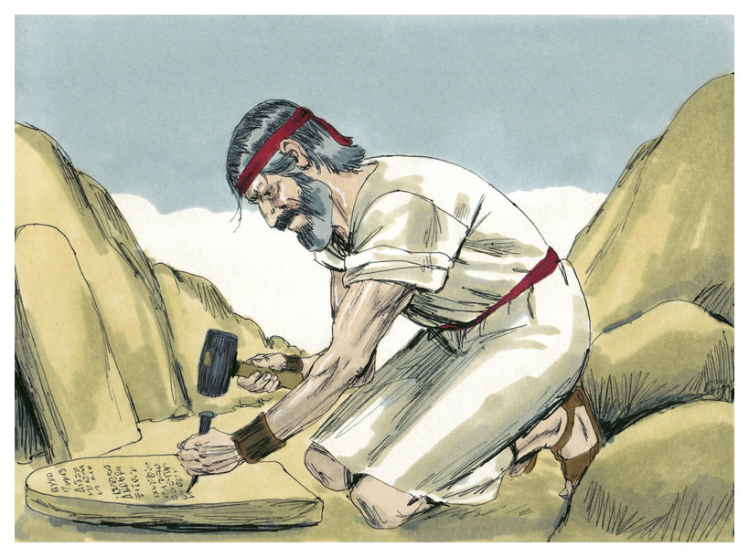 Biblical illustration of Book of Exodus Chapter 35